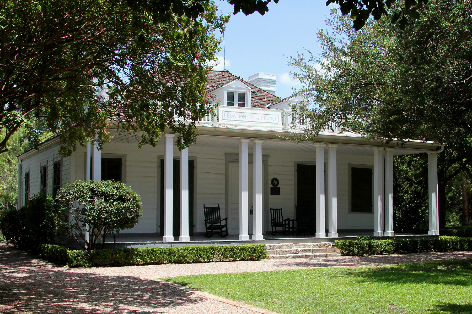 The French Legation, built in 1840-41, is now the French Legation Museum. This building was the home of the chargé d'affaires of France to the Republic of Texas until 1846, when the Republic of Texas ceased to exist. The building was listed in the National Register of Historic Places on November 25, 1969.